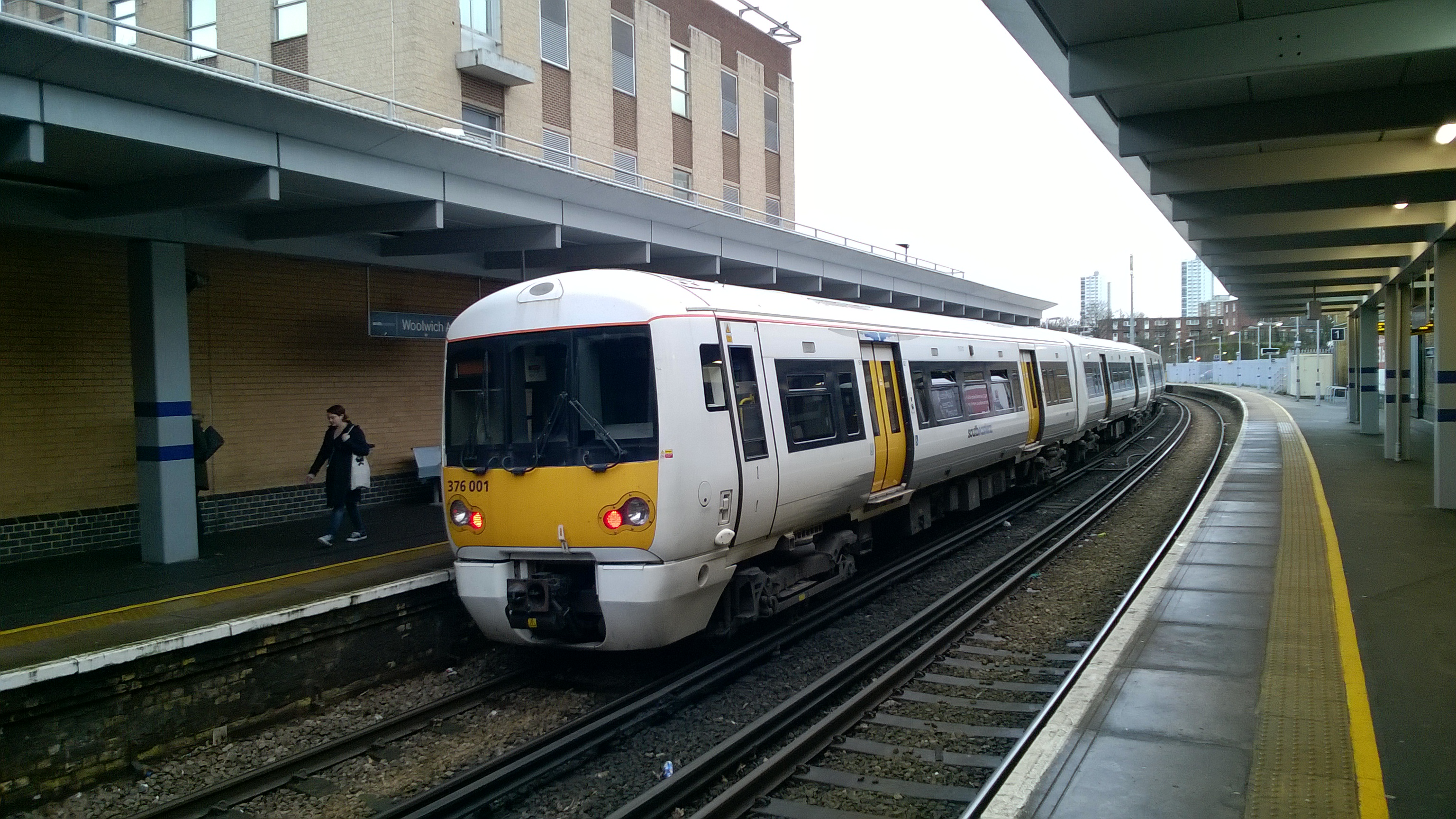 Pioneer unit 376001 at Woolwich Arsenal station